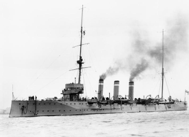 Photograph of British cruiser HMS Topaze.